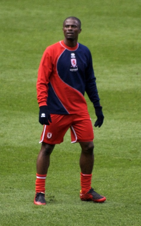 Dutch football player George Boateng while playing for Middlesborough.